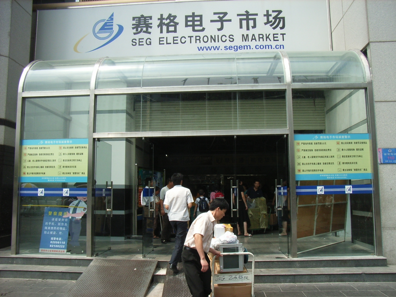 Shenzhen, China (Author is SAMZ).